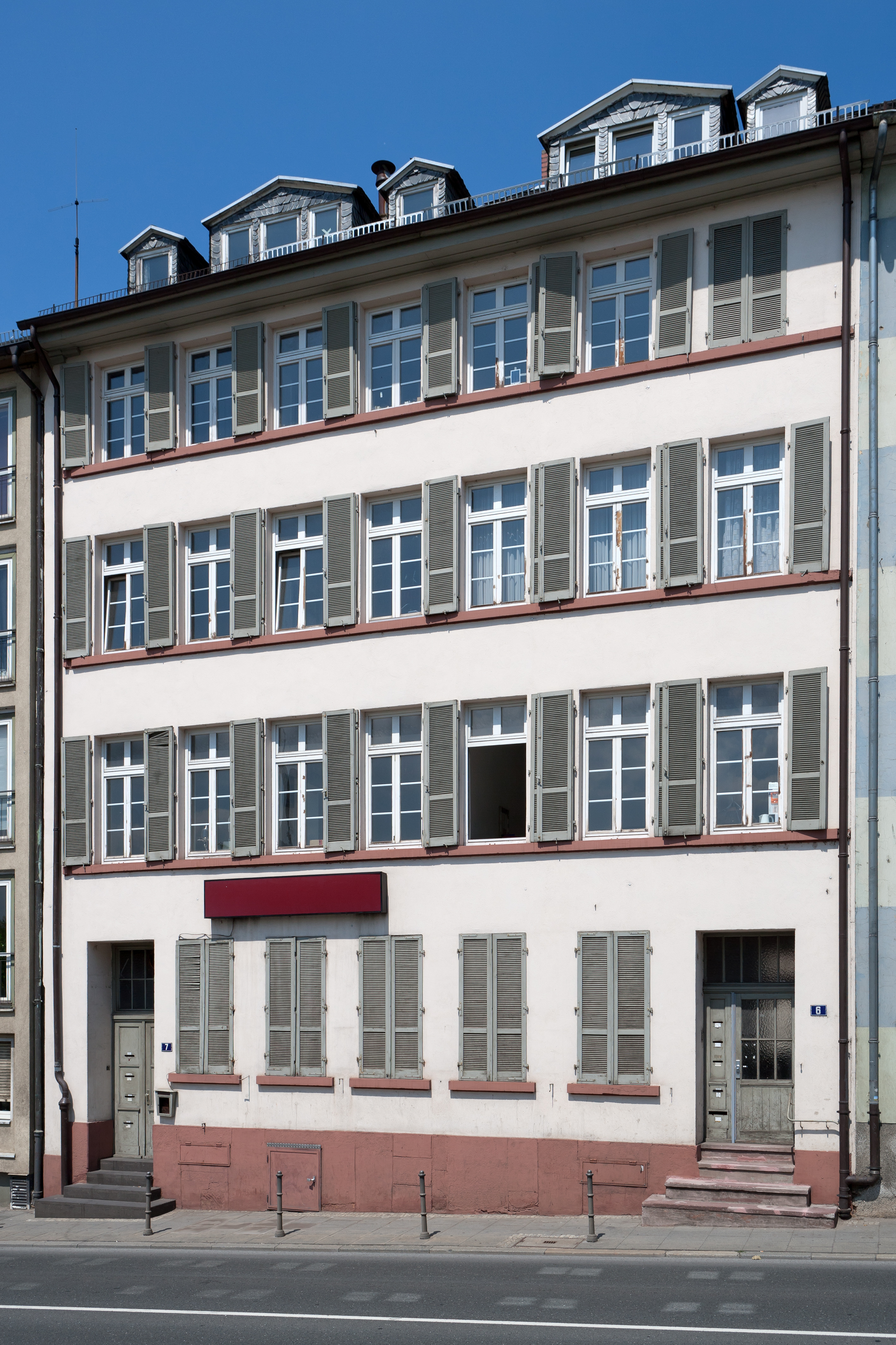 Frankfurt on the Main: Mainkai (Main Quay) 6/7 as seen from the southeast